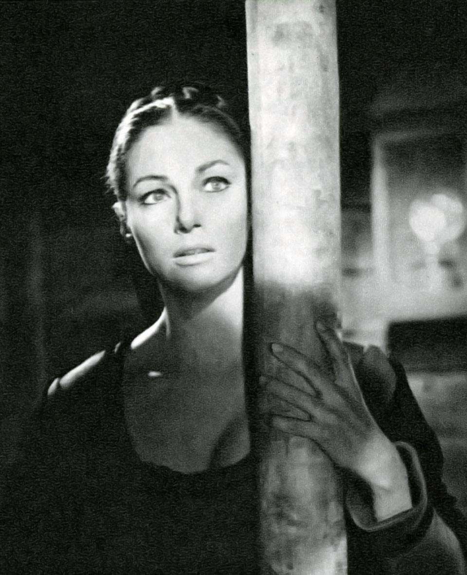 screenshot from the film Per mille dollari al giorno (1964)